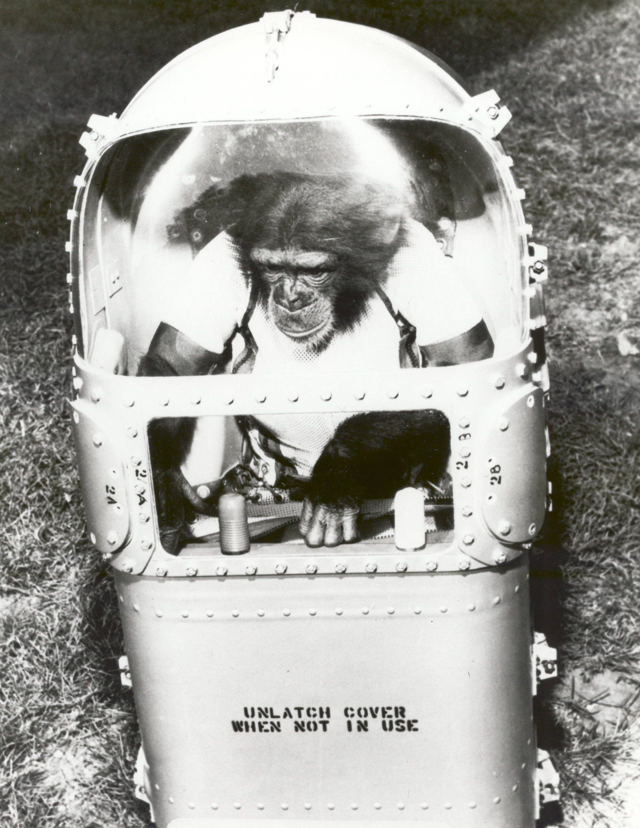 Ham tries out his combination couch and life support system in preparation for his flight in Mercury Redstone-2 (MR-2). The couch is plugged into the circuit that normally would supply the astronaut's full pressure suit. The MR-2 flight was one in a series of flights that led to the manned orbital flights of NASA's Project Mercury program. Image # : 61-MR2-7A